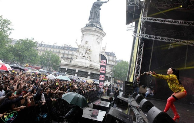 Ambassador of Paris Pride (2014) Photo credit: Jerome Brebion / We Are Family Tara McDonald headlining Paris Pride 2014, Place de la Republique.